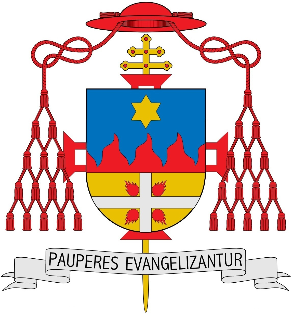 Coat of arms of the Archbishop of Toledo Marcelo González Martín: PAUPERES EVANGELIZANTUR (Lk 7:22)